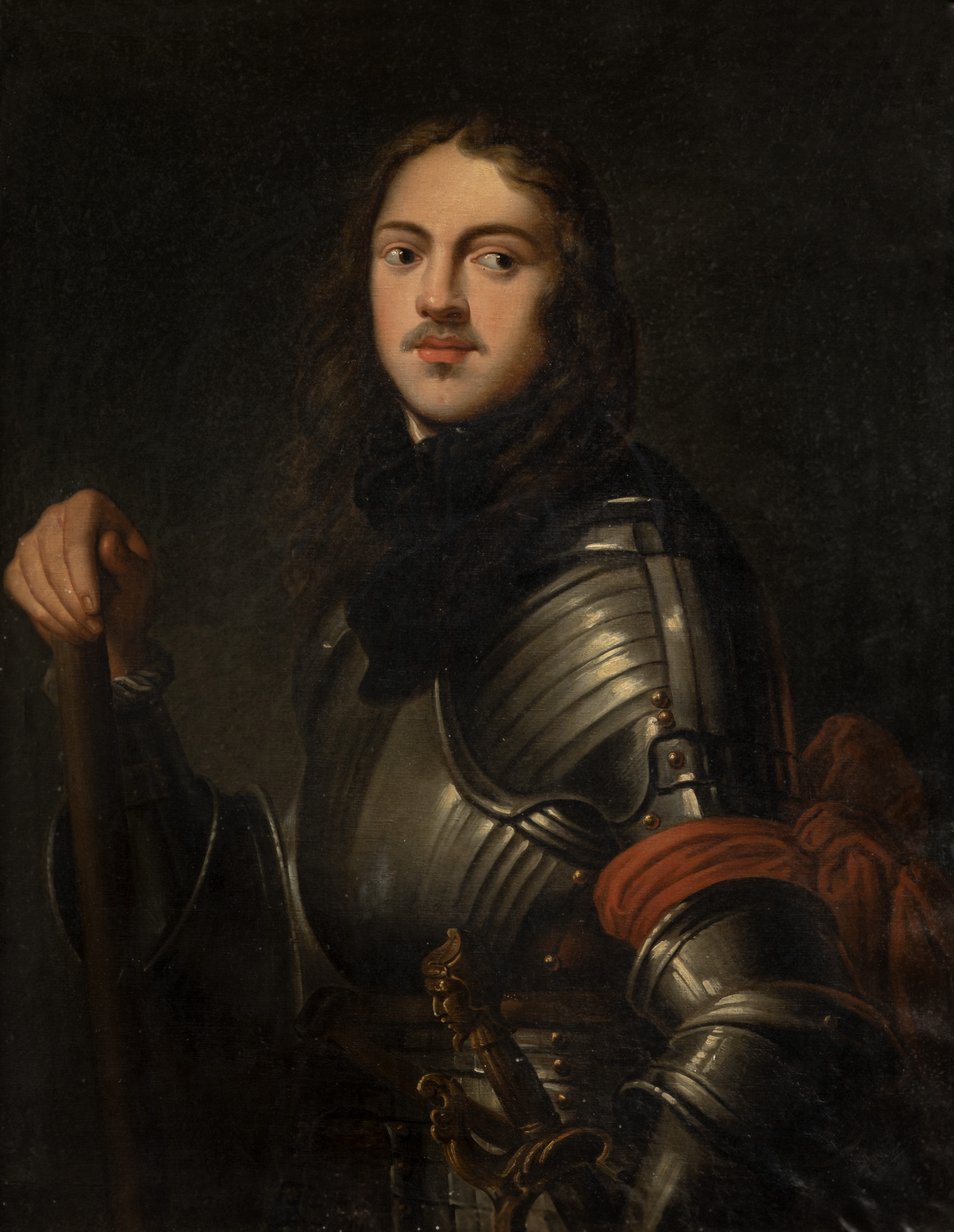 Portrait of Johann Baptist Graf von Arco